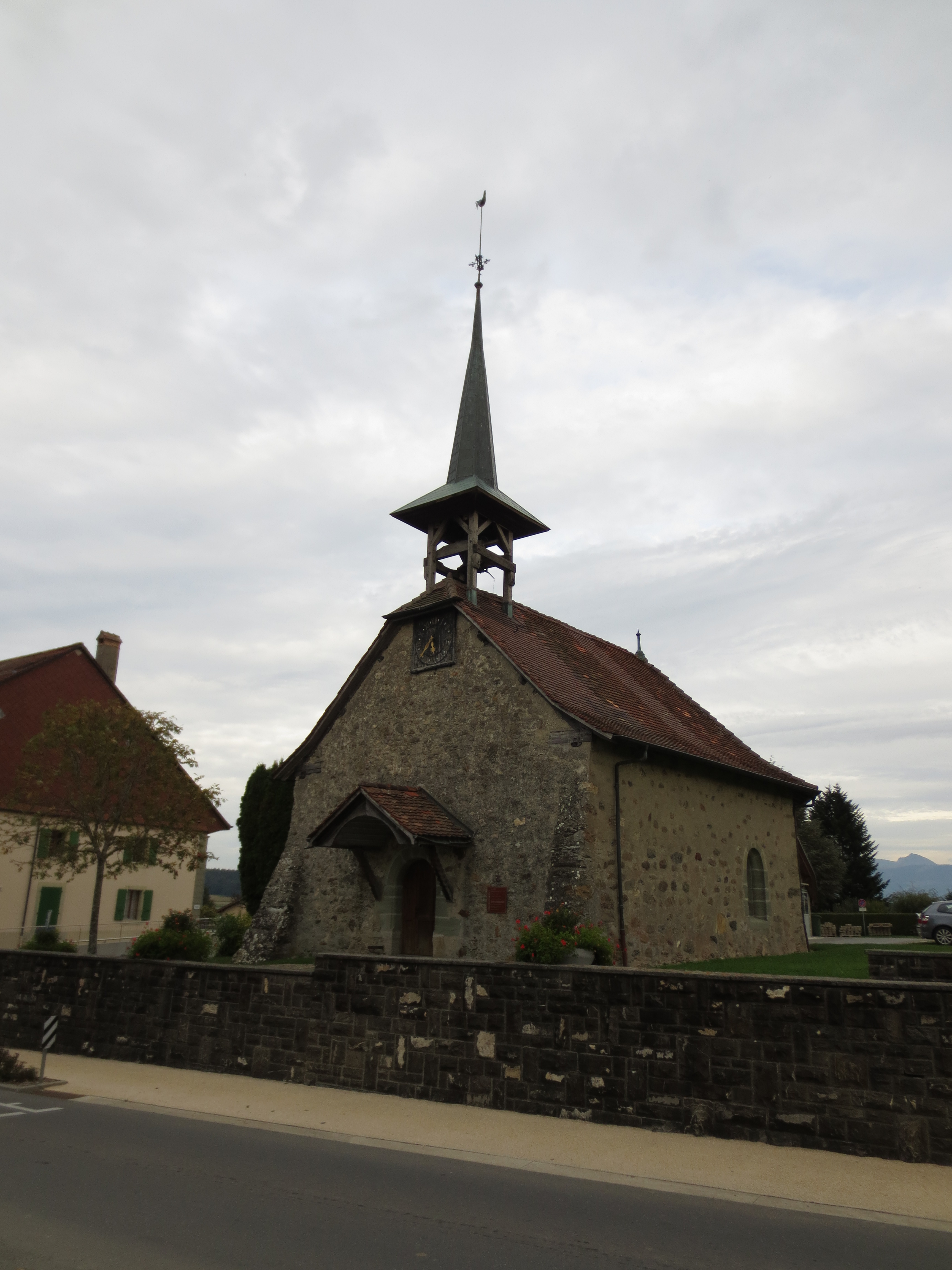 Carrouge Chapel, Canton of Vaud, Switzerland